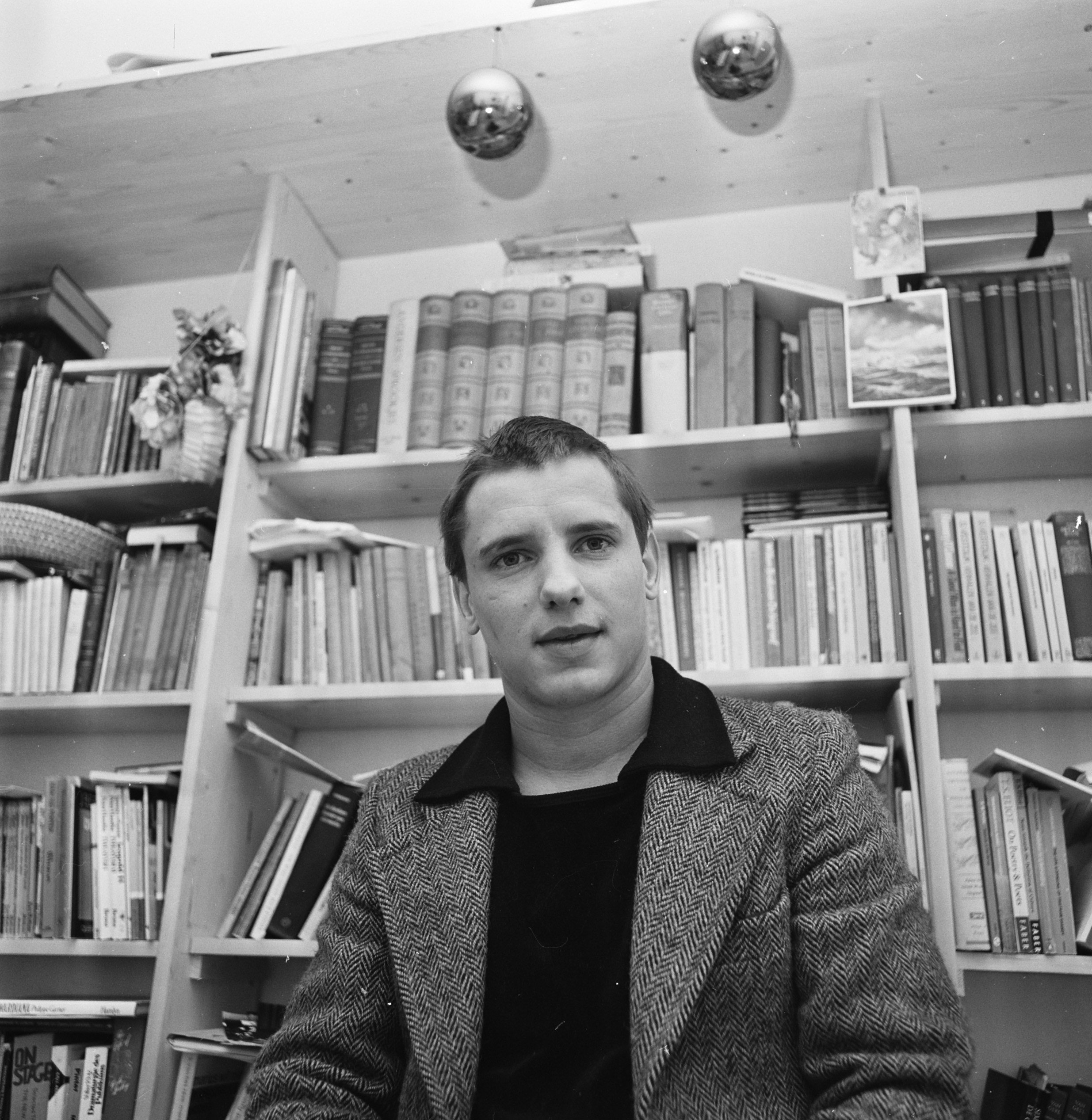 Willem Jan Otten (1978)